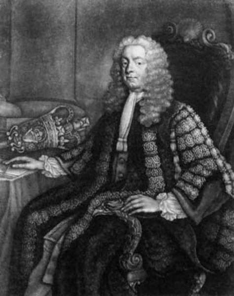 Henry Boyle, 1st Earl of Shannon (1681-1764)